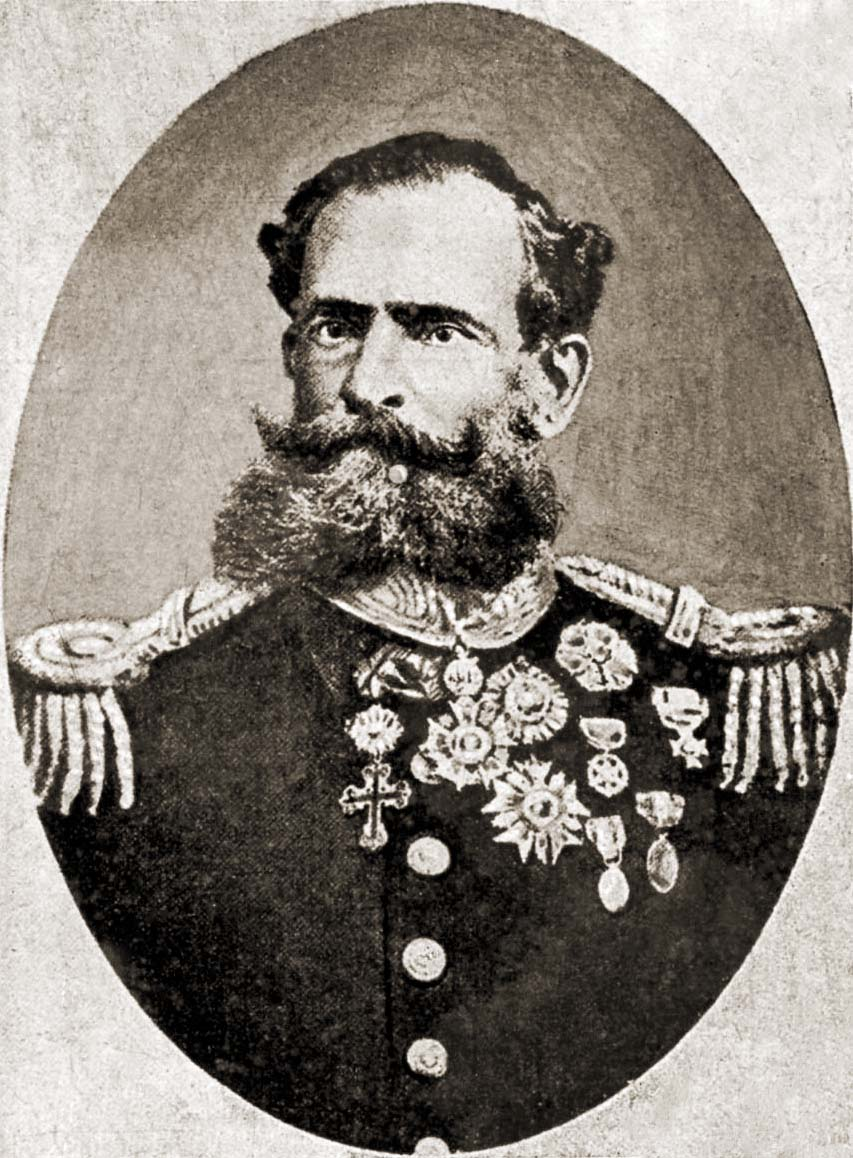 Deodoro da Fonseca as the military governor of Rio Grande do Sul, 1886